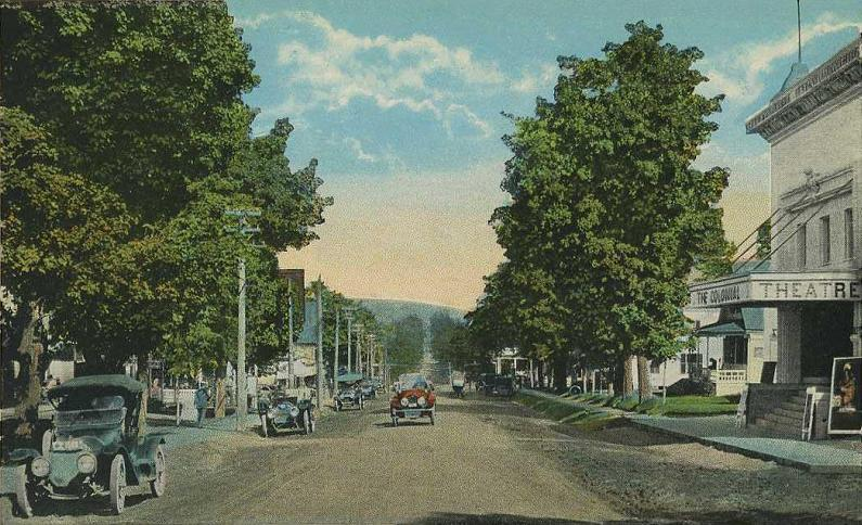 The Colonial Theatre, Bethlehem, NH; from a c. 1920 postcard. Designed by the Tampa, Florida architect Francis J. Kennard, it was built in 1914 and opened July 1, 1915. It is listed on the National Register of Historic Places.